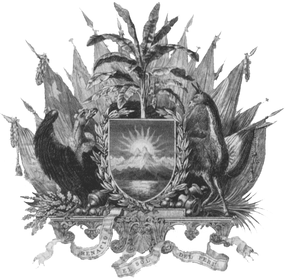 National Emblem of Peru (until 1825).